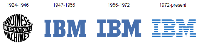 IBM logo history.